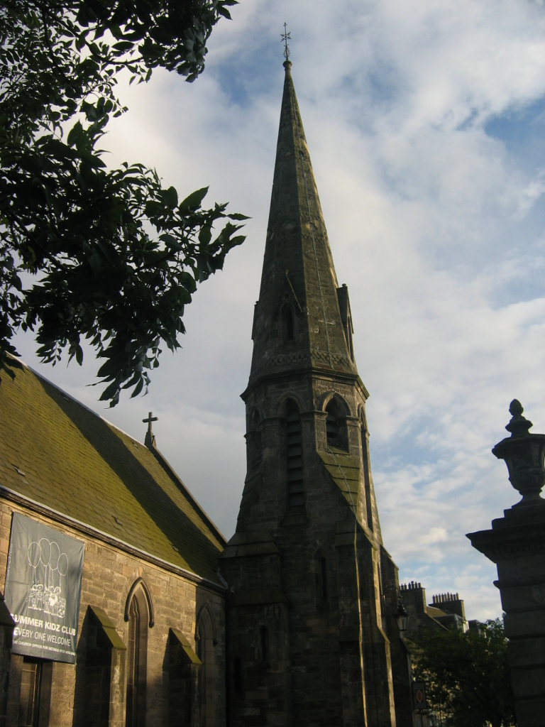 Scottish episcopal church, Musselburgh, East Lothian, Scotland